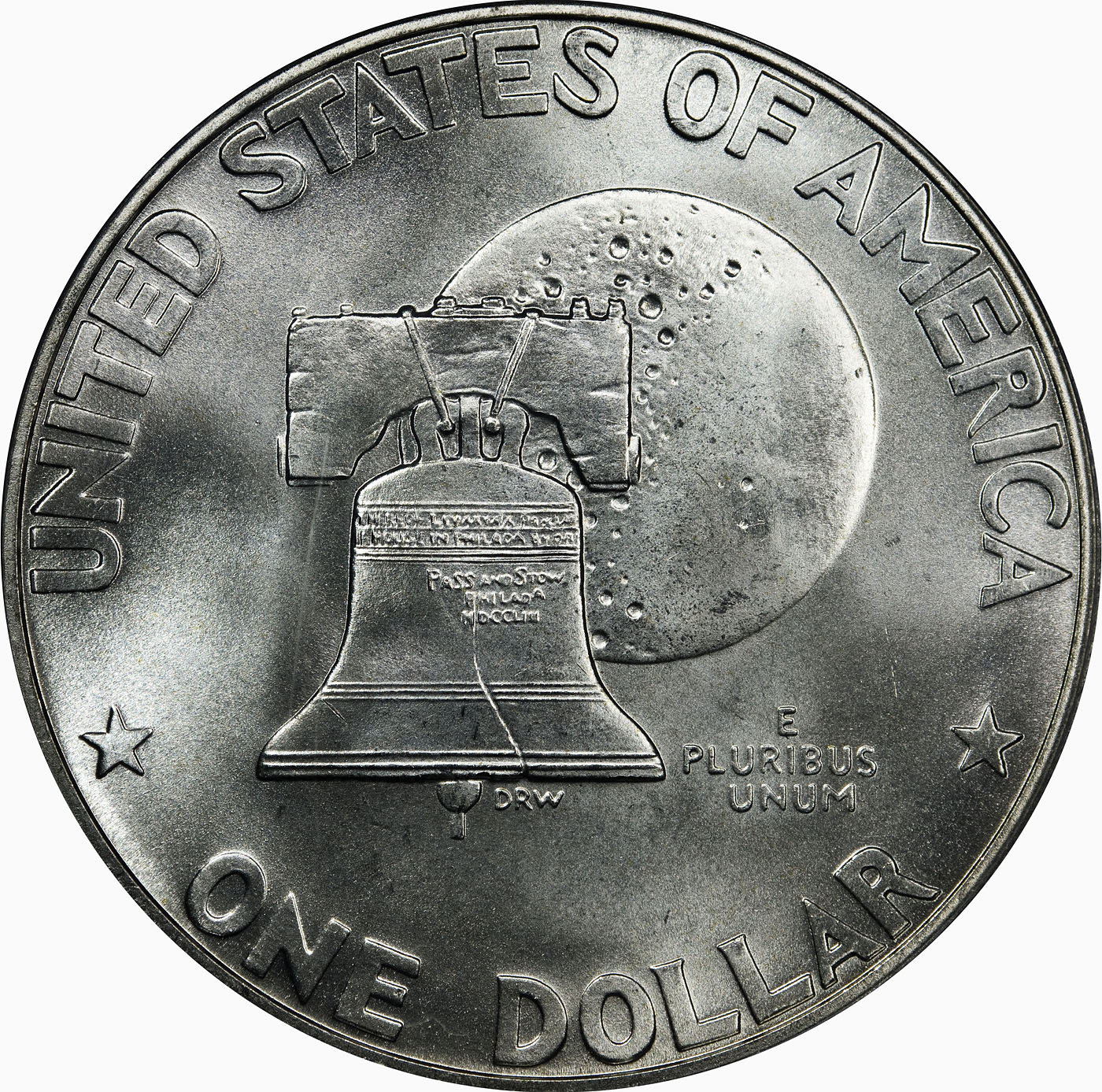 Eisenhower dollar bicentennial reverse type 1 (notice the thick block letters of the legend). This coin is the silver version of the coin, and was minted in San Francisco and graded MS67 by PCGS.